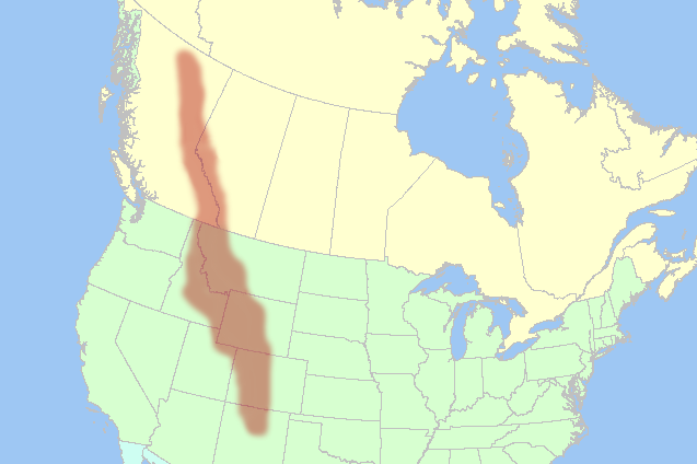 Locator Map of the Rocky Mountains of North America. Colours are based on the discussions at Wikipedia talk:WikiProject Maps. Map drawn in GIMP.